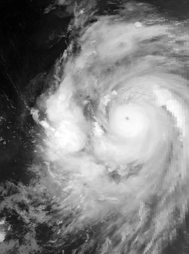 Typhoon Kim on July 24, 1980